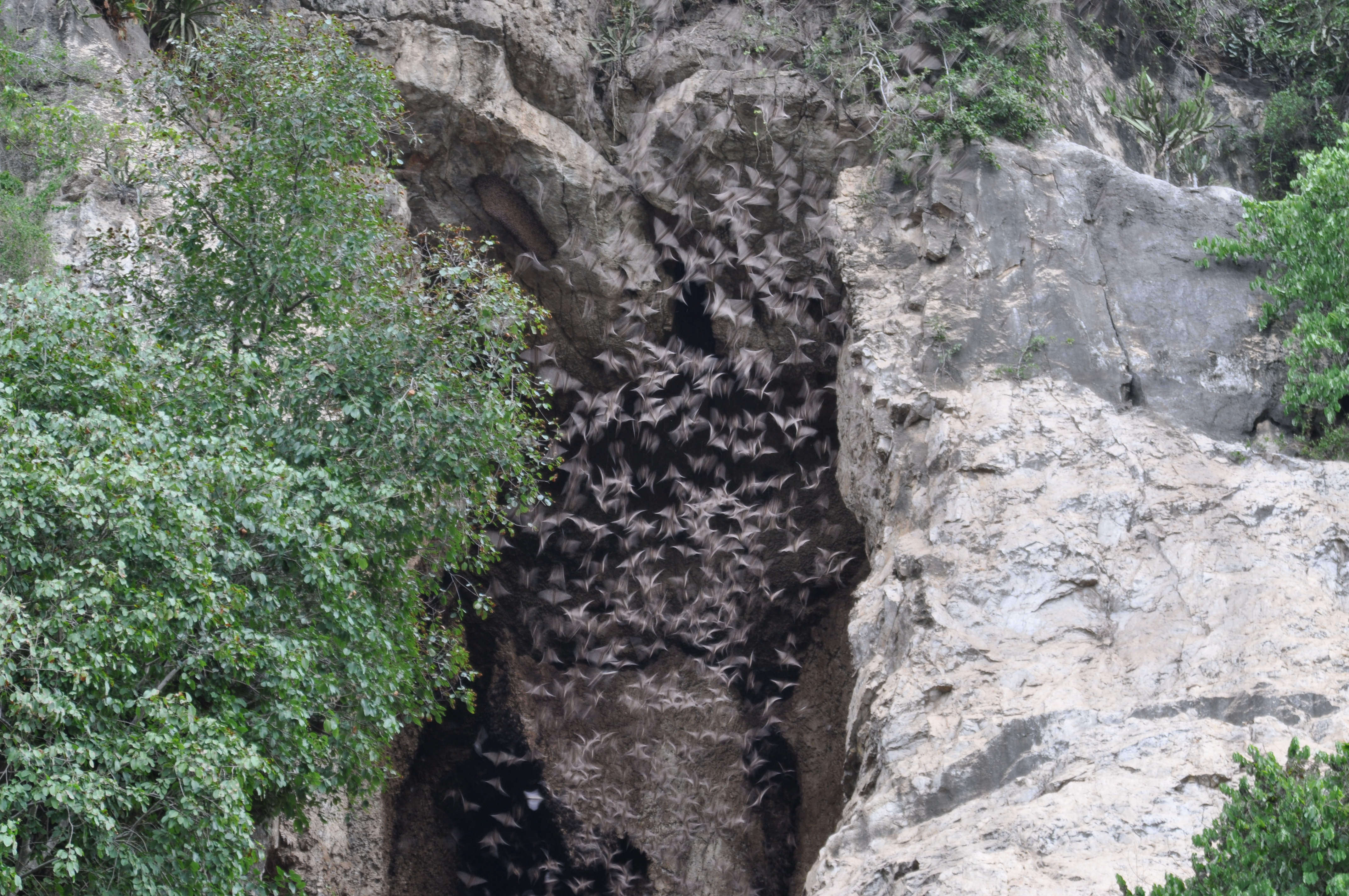 Just see the number of bats here! From ones and twos to scores to hundreds to now thousands! Now that is serious numbers for you! So it's not only we humans that has to grapple with overpopulation! (Battambang, Cambodia, Apr. 2014)